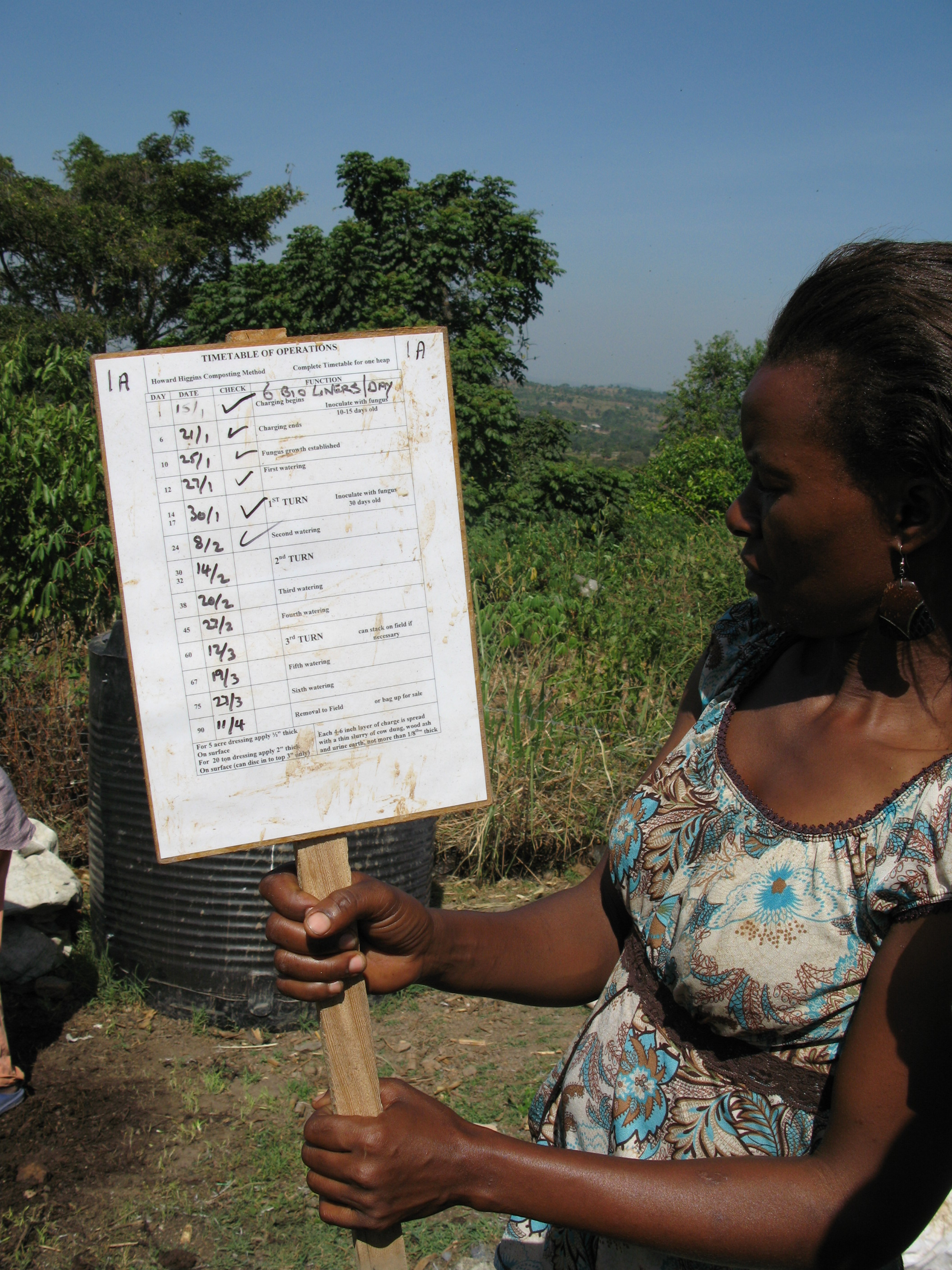 Annett showing the checklist for the composting